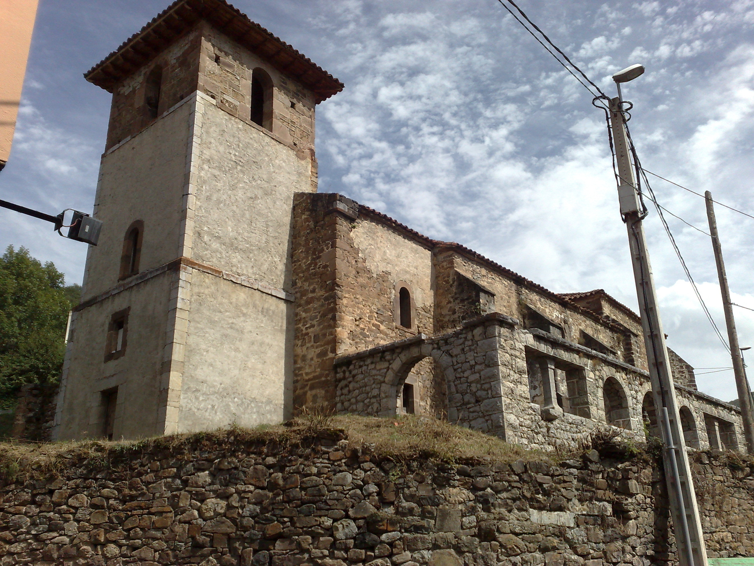 Former church in Espinama